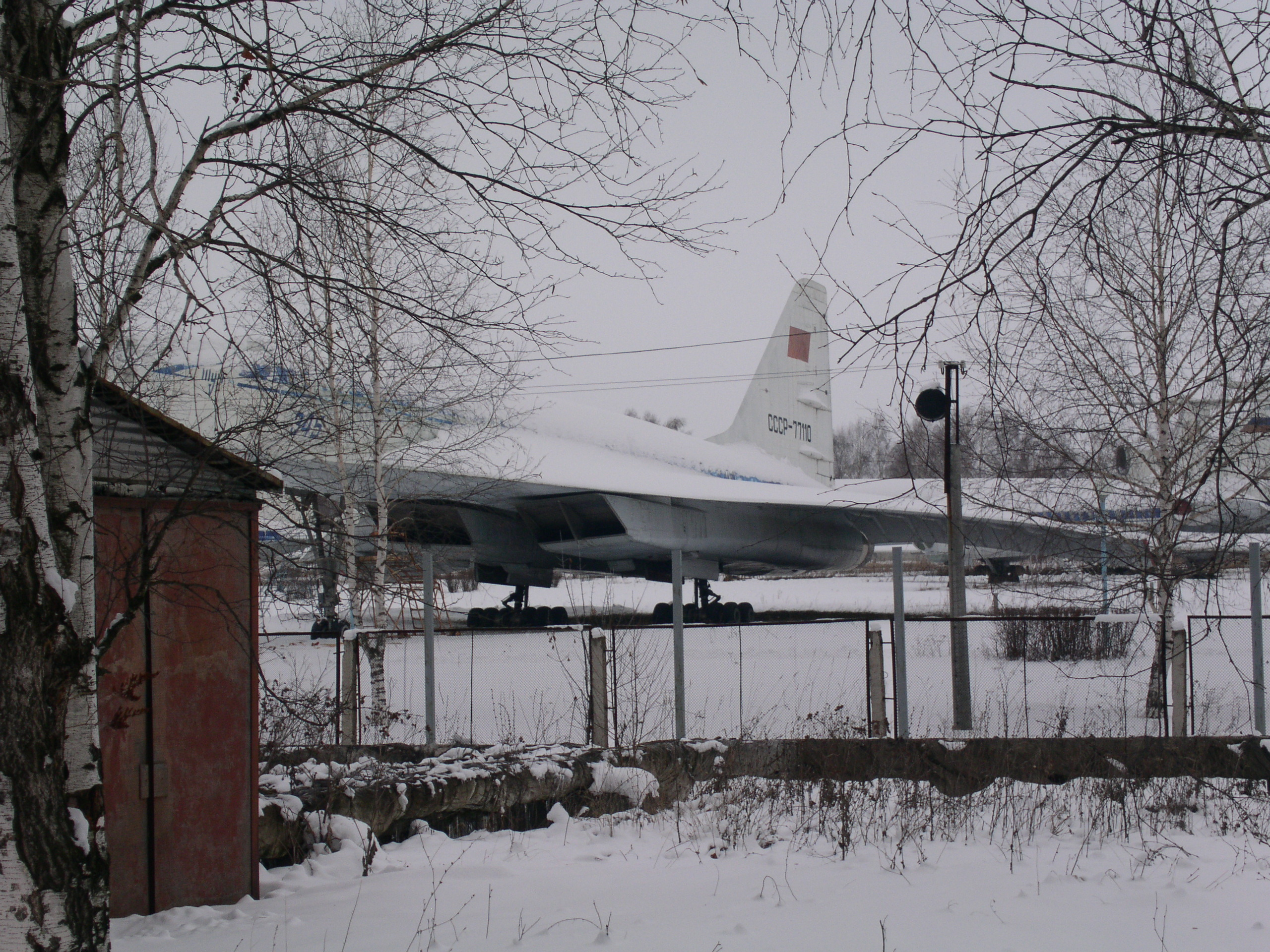 Tupolev Tu-144 (CCCP-77110) in Ulyanovsk Aircraft Museum (Ulyanovsk-Central "Baratayevka" Airport)